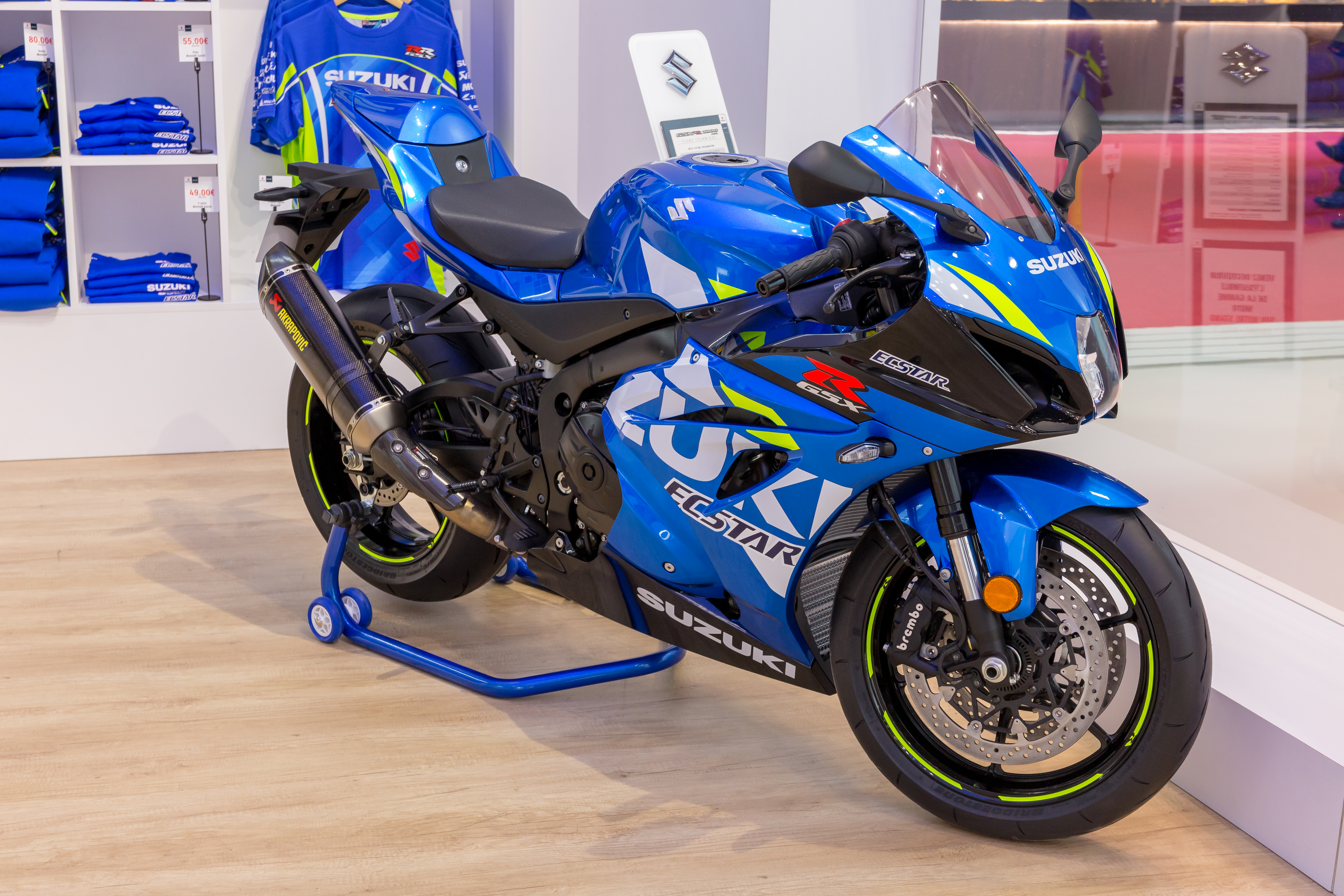 Suzuki GSX-R 1000